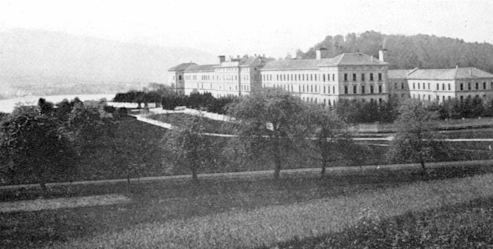 Cantonal asylum at Burghölzli, circa 1890